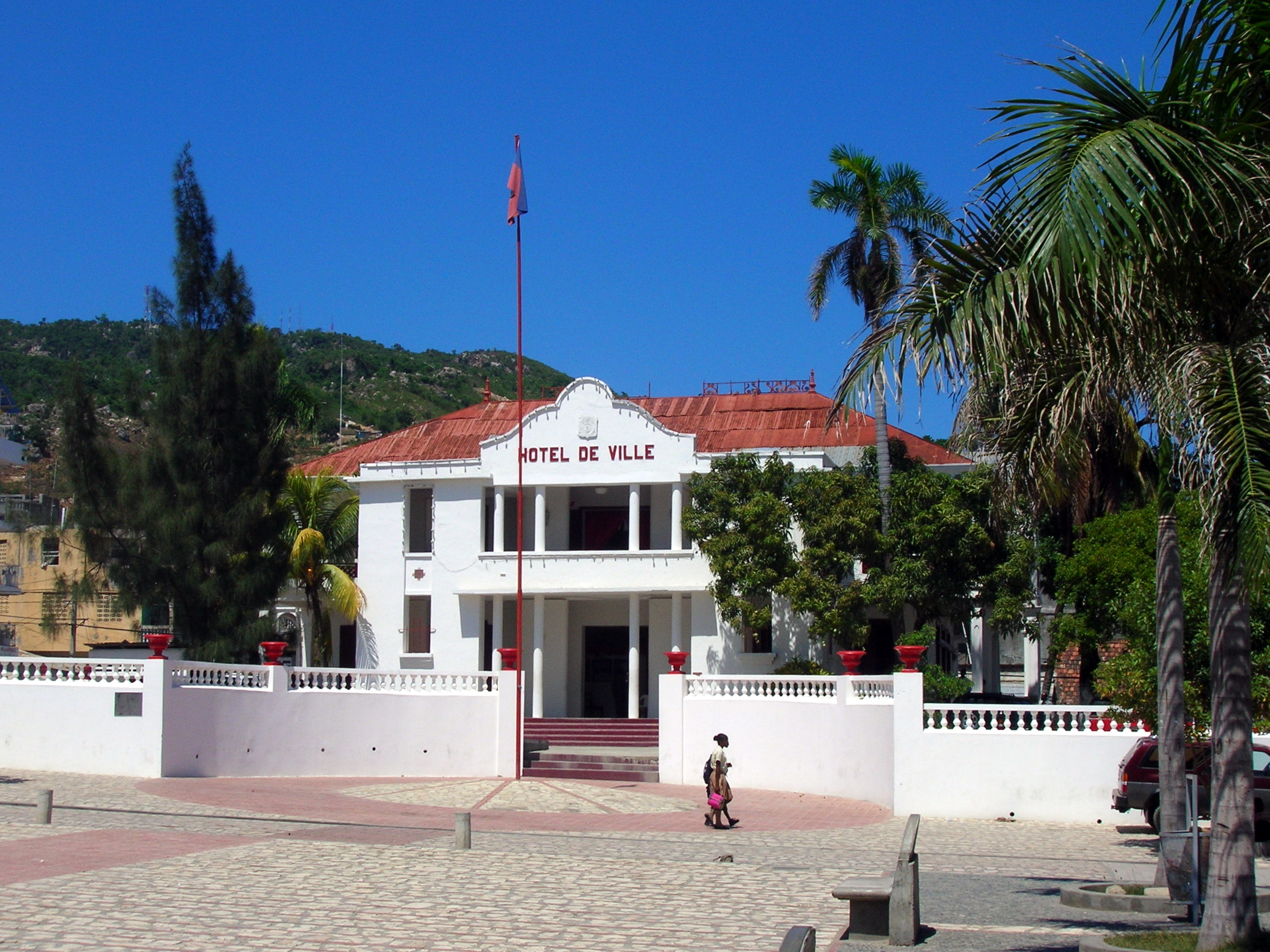 The city council of Cap-Haitien.